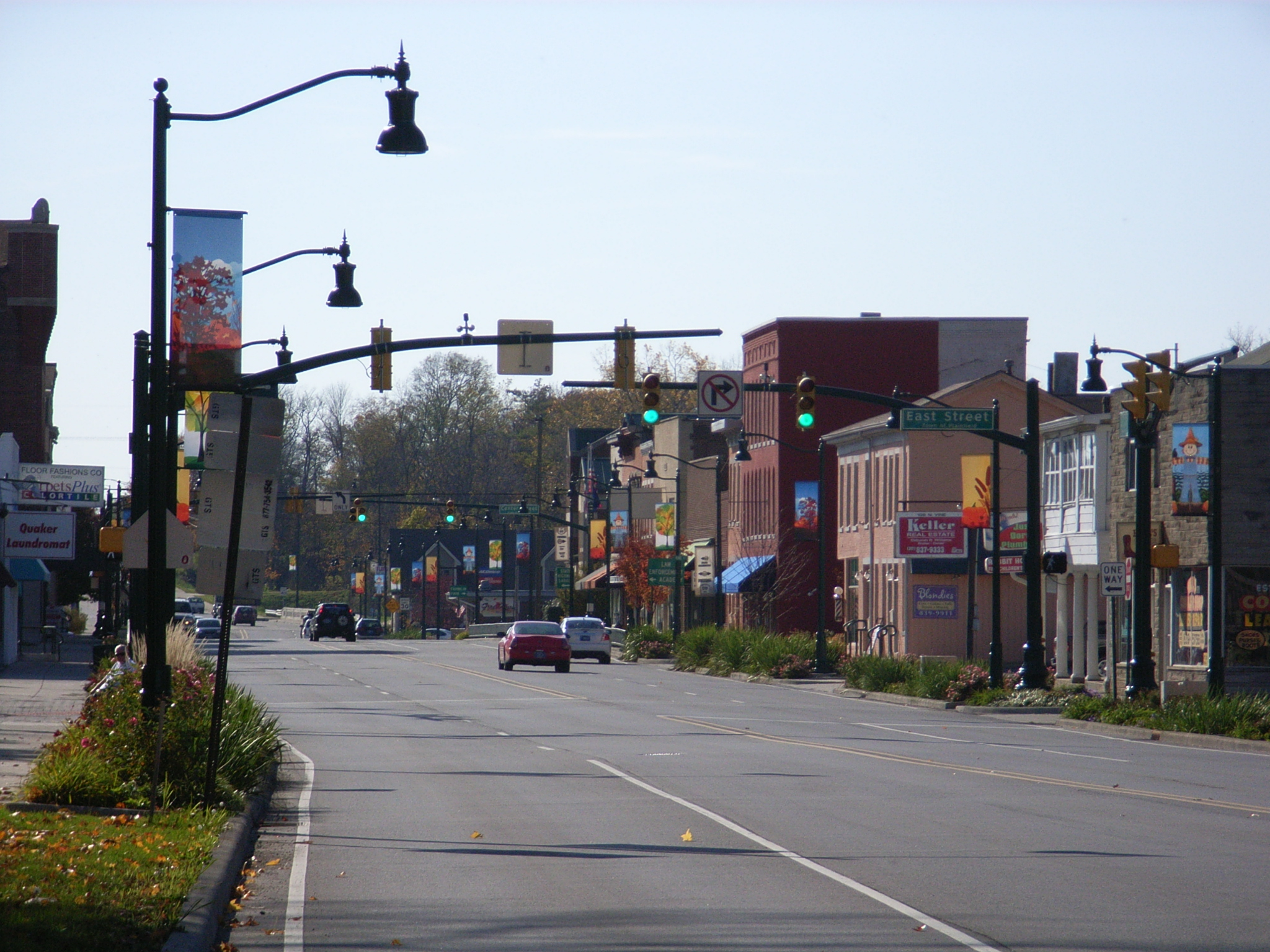 Downtown Plainfield, Indiana.